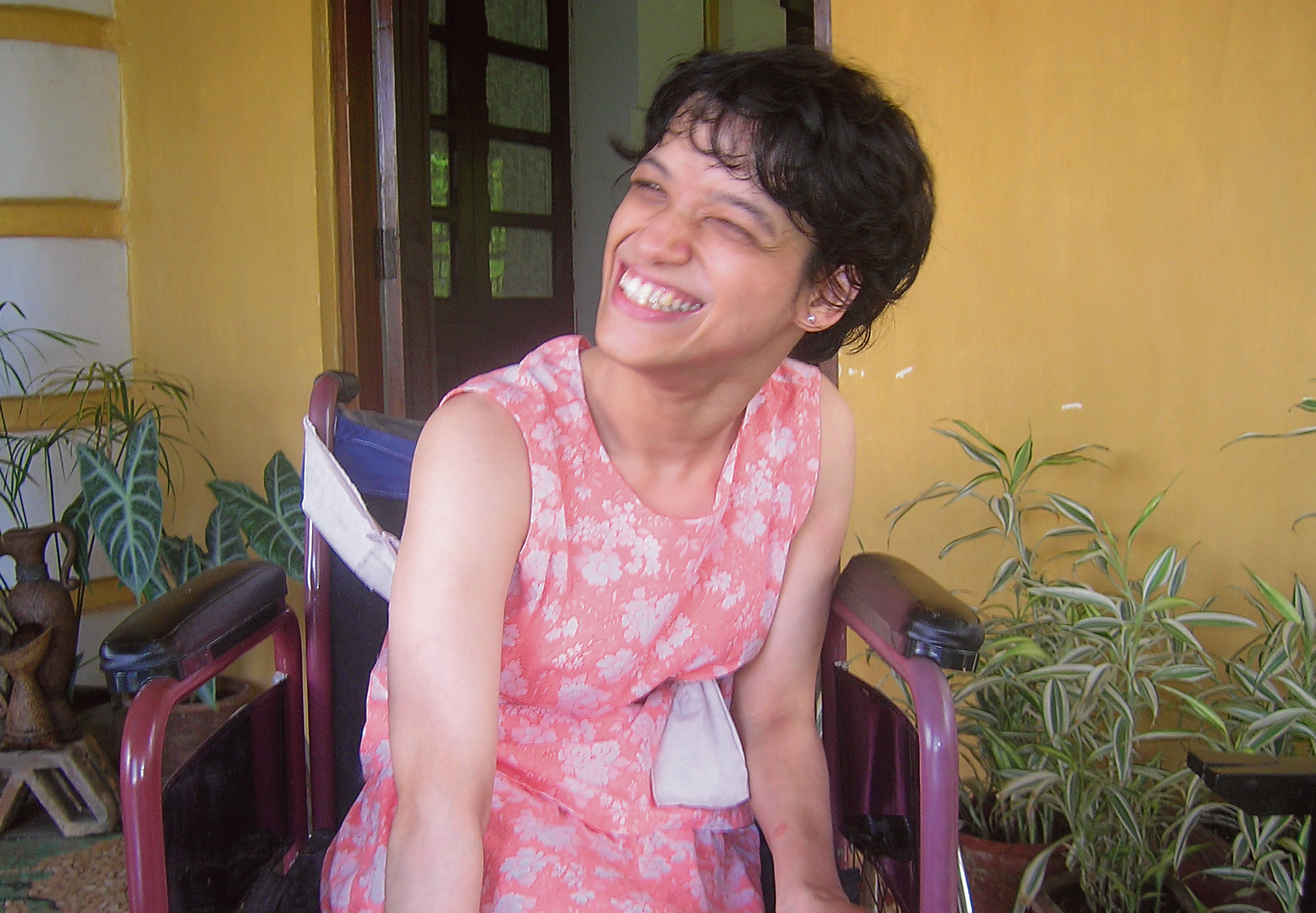 Frederika Menezes, author from Goa, India